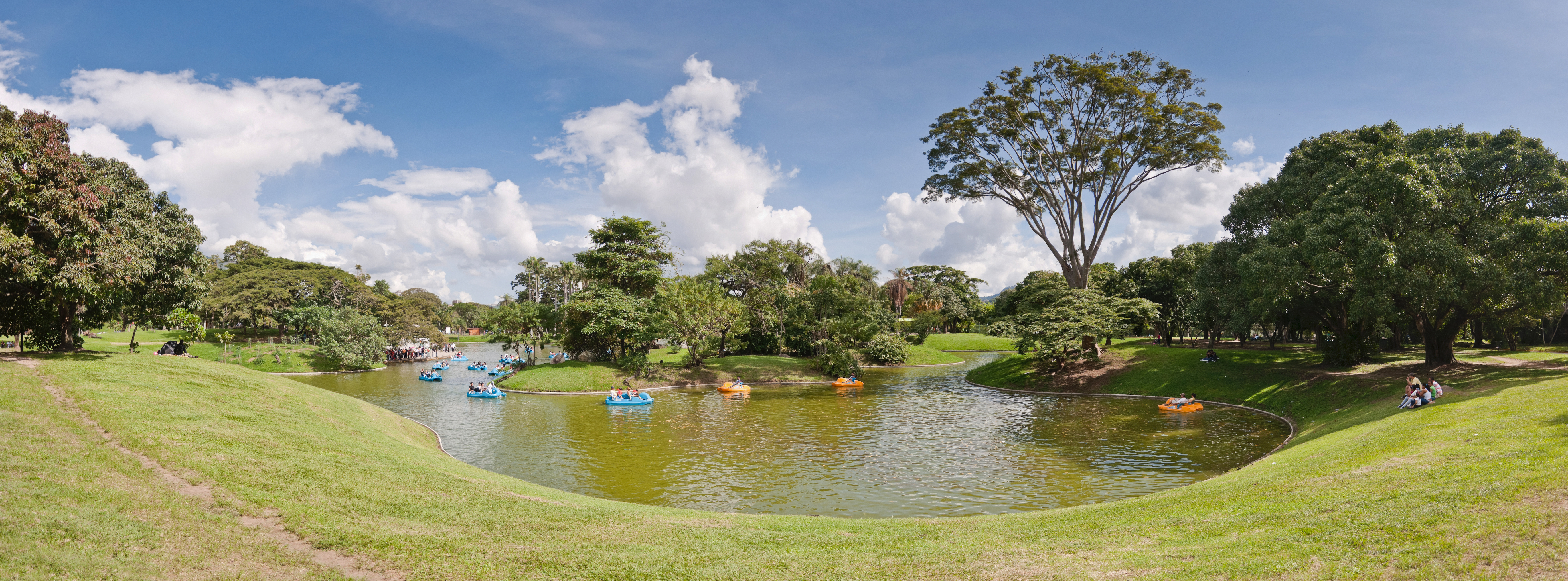 Southern Lake, in Parque del Este, Caracas, Venezuela.